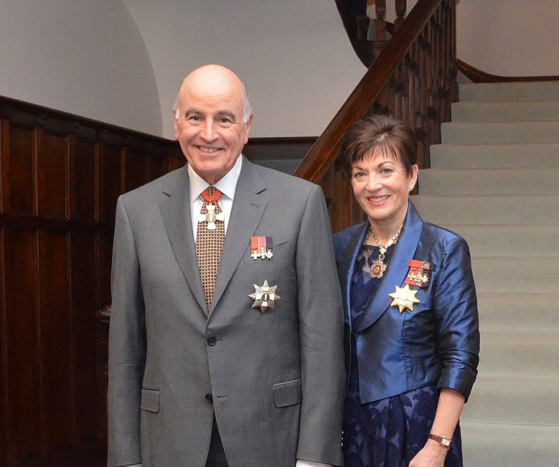 The Governor-General, The Rt Hon Dame Patsy Reddy and Sir David Gascoigne